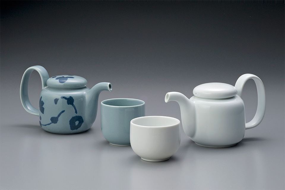 O-type Tea Set (1991), Masahiro Mori (ceramic designer) designed